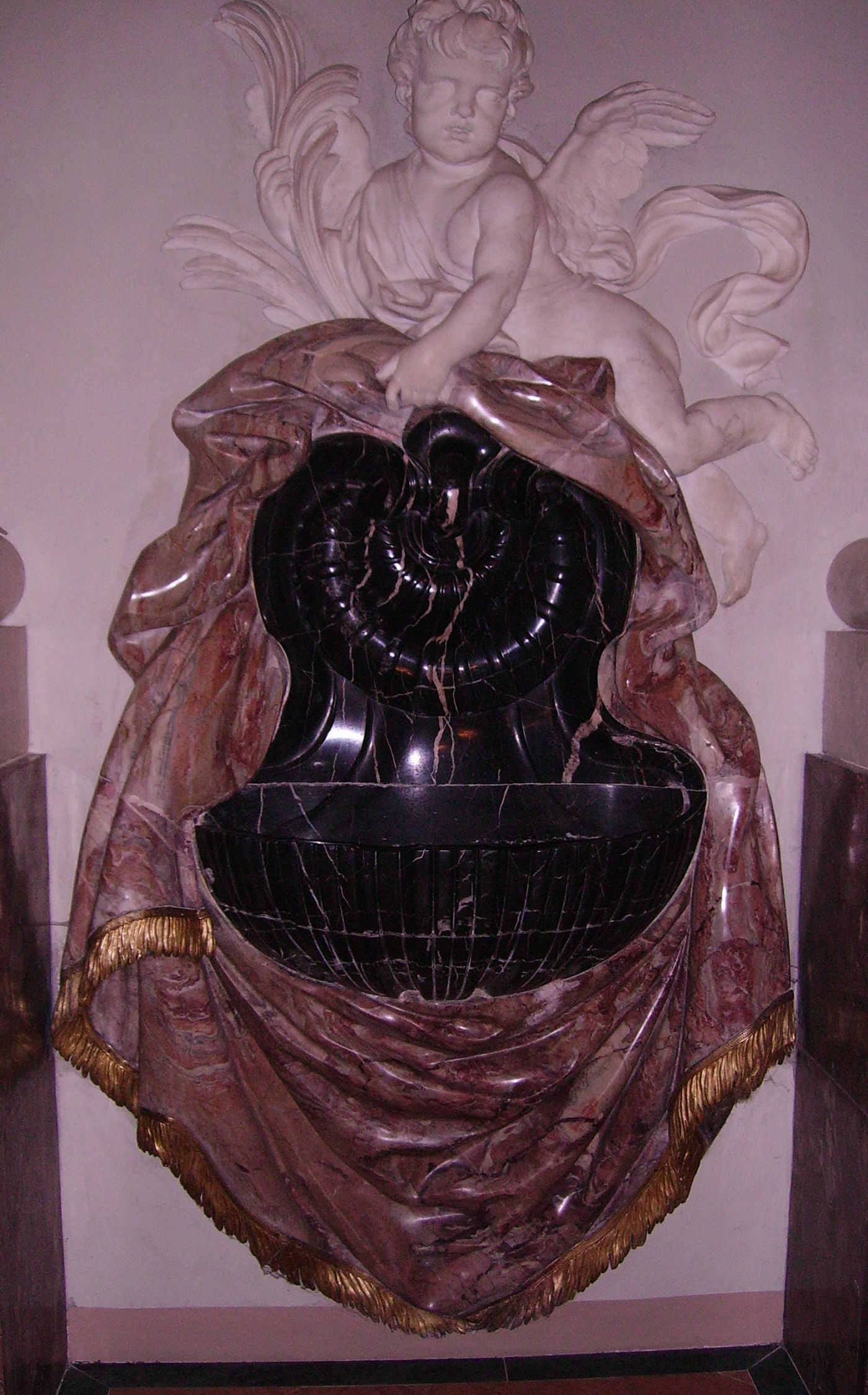 Jesuit church in Mannheim, Germany